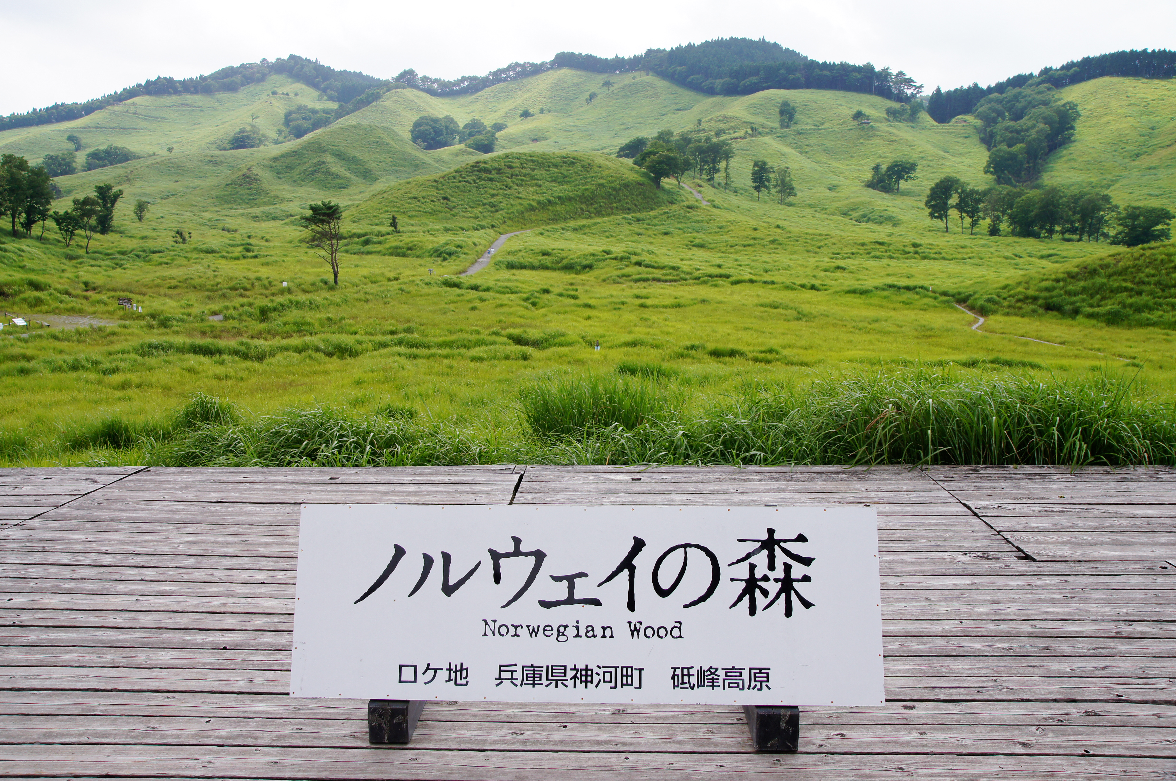 Tonomine highlands in Kamikawa, Hyogo prefecture, Japan.